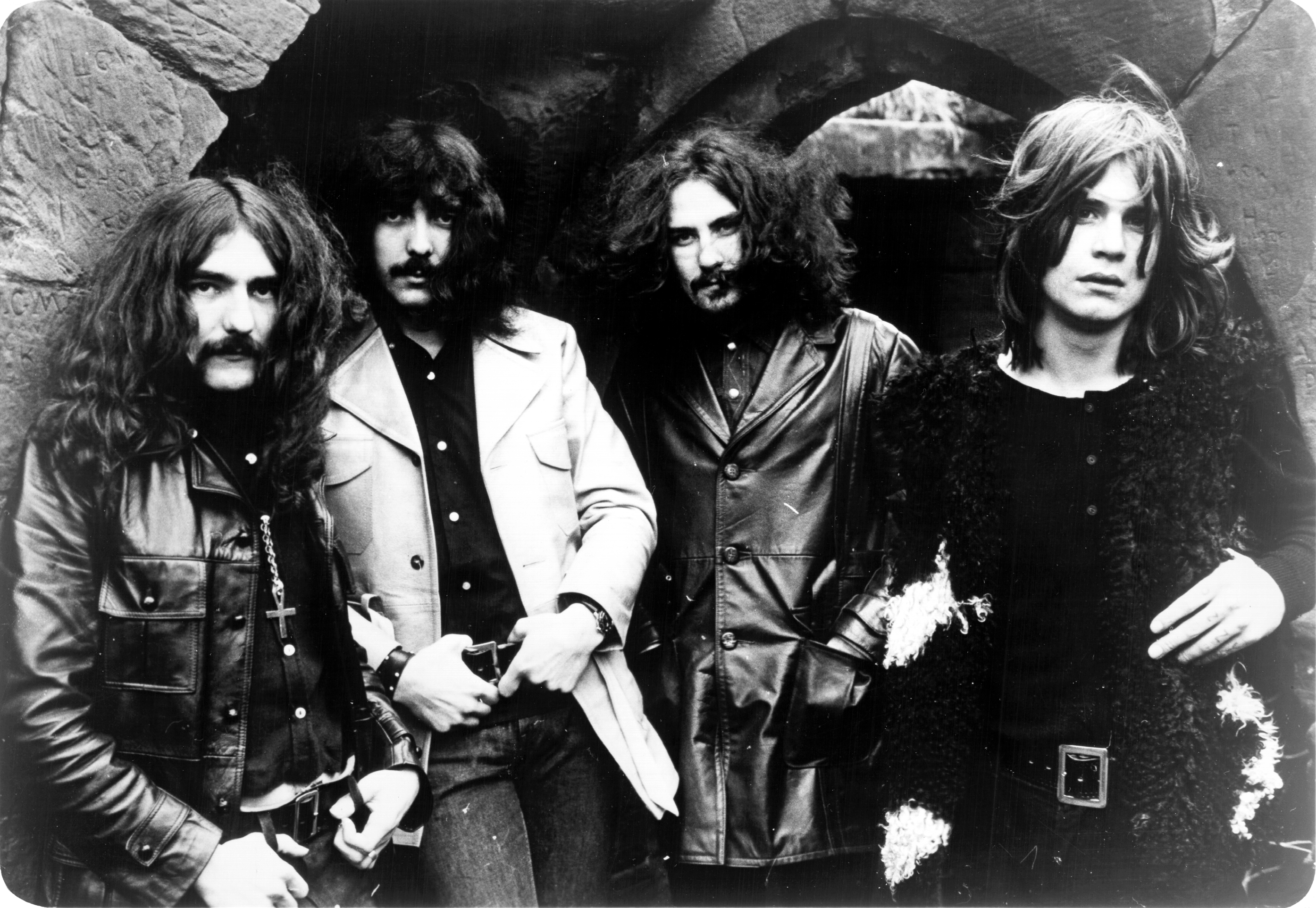 Trade ad for Black Sabbath's album Black Sabbath.To better adapt it to his respective Wikipedia article, the ad was cropped and cleaned in a graphics editing program. The original can be viewed at the source below.